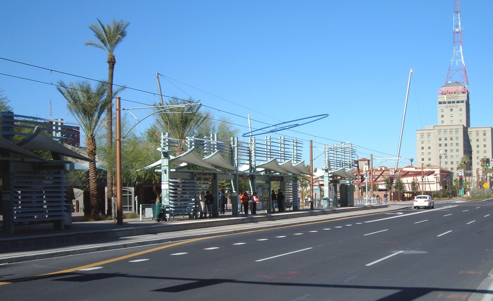 Photograph of the ASU Downtown Campus Station (or Central at Van Buren or simply Central Station) of METRO Light Rail that serves the Phoenix area, Arizona, USA. This is a photograph of the northbound platform. Visible in the right background is the Westward Ho building. This photograph was taken during the light rail's grand opening celebration on December 28, 2008.